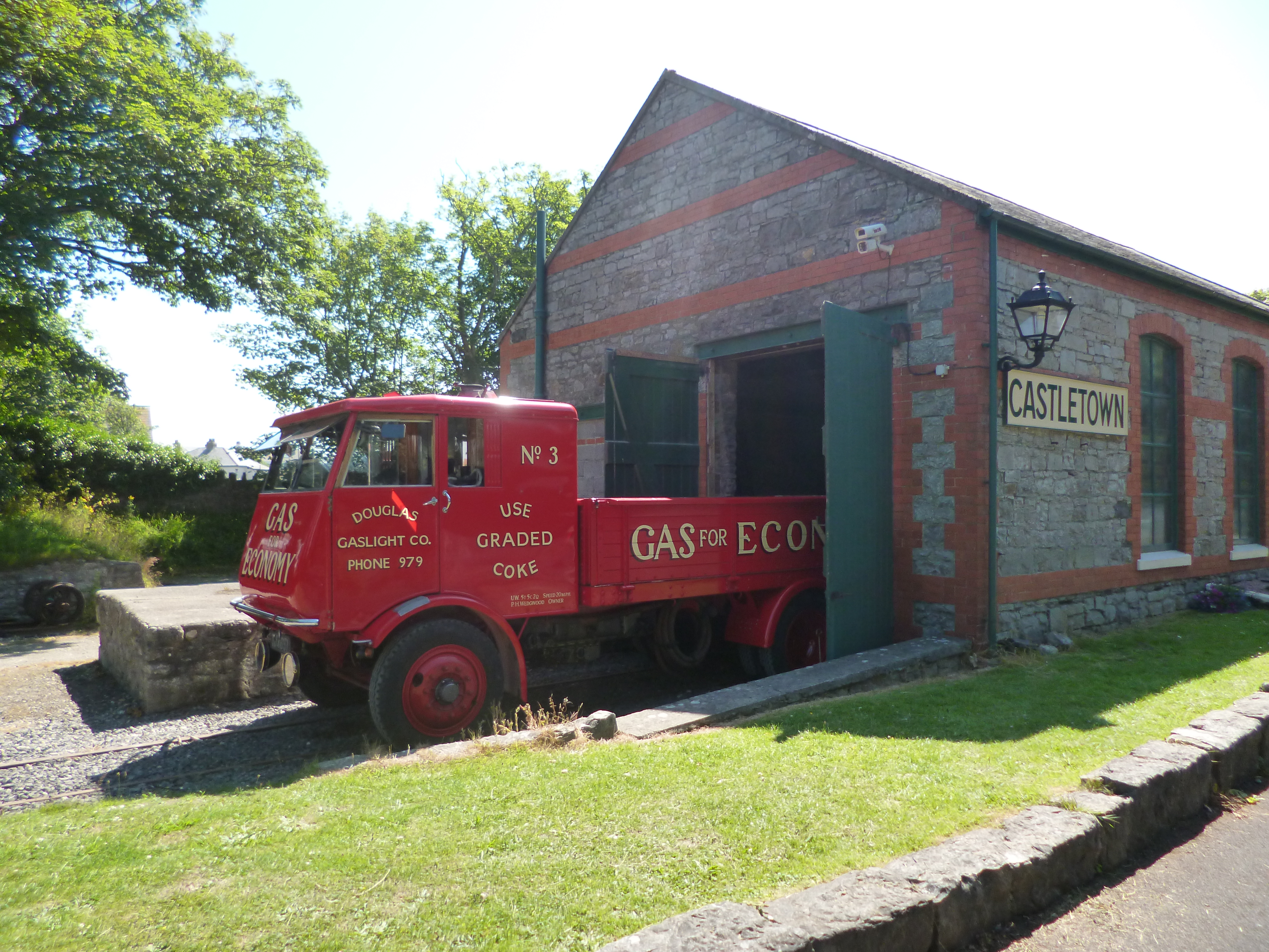 Sentinel steam wagon in the goods shed at Castletown Station on the Isle of Man Railway